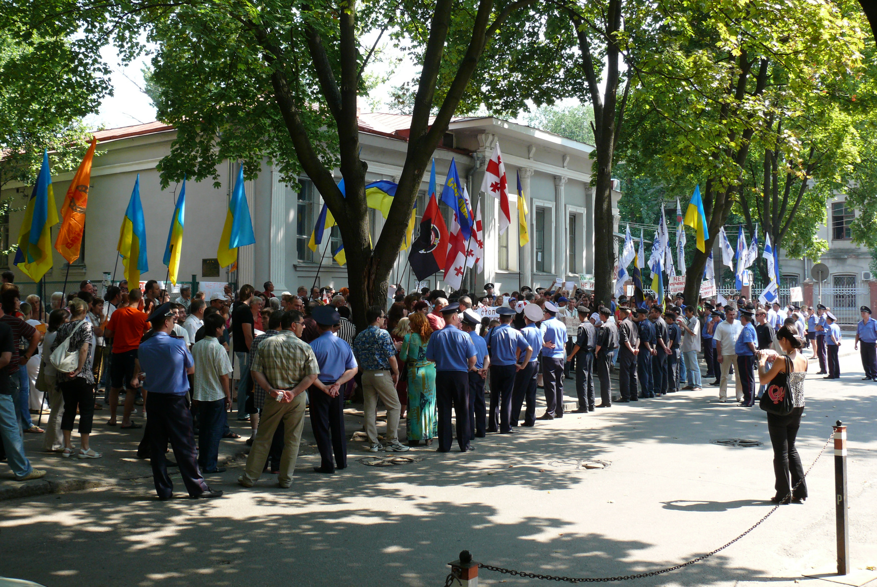 Picketing of General Consulate of Russia in Kharkov, Ukraine, on August 12, 2008, related to South Ossetia war. There are two pickets: one in support of Georgia (to the left) and one in support of South Ossetia and Russia (to the right).